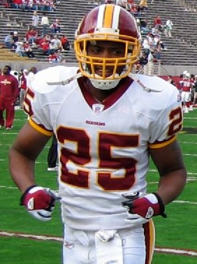 Cropped from Image:2005_Redskins_on_the_field_-_2.jpg. #25 Ryan Clark (Ryan Clark (football player)) of the Washington Redskins